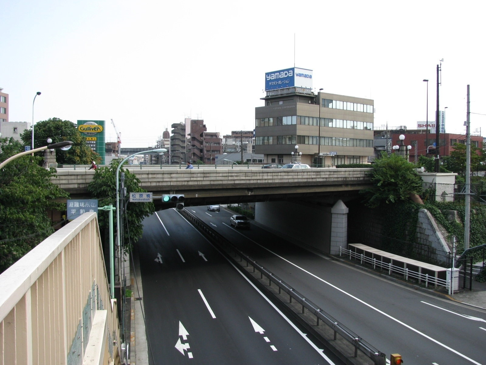 Matsubara Bridge on the Japanese National Route 1 (Daini Keihin section) in Ota Ward, Tokyo